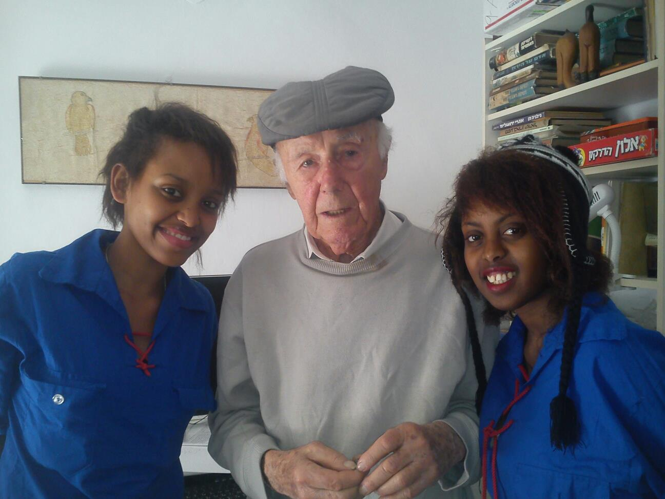 Simcha Rotem, "Kazik", with "HaNoar HaOved VeHaLomed members - Meron Derso and Ortal Afram